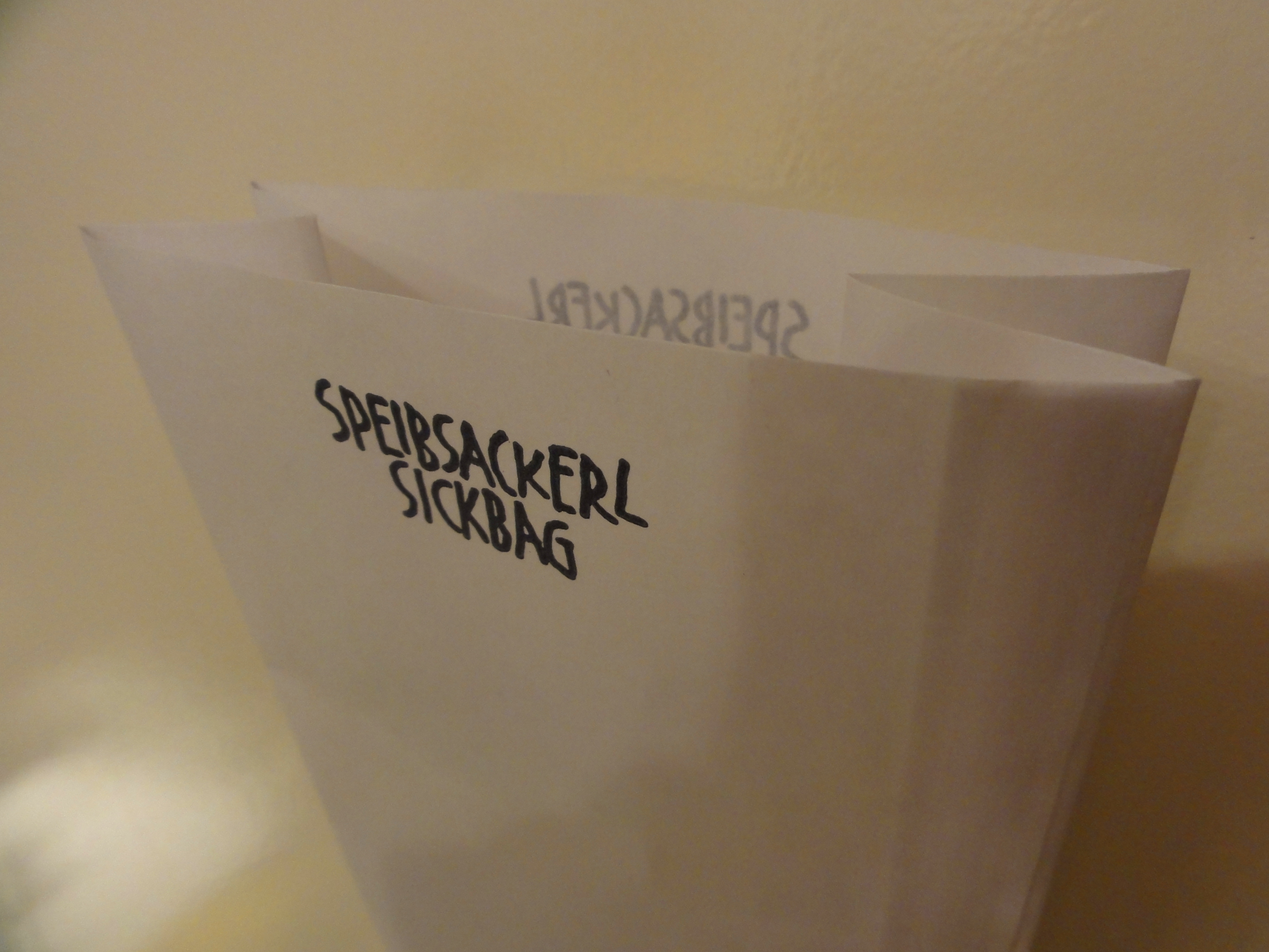 Sickbag ("Speibsackerl") of an Austrian airline